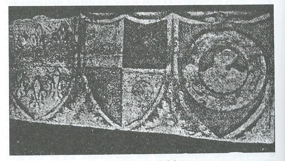 coat of arms in Chalcis, Euboea